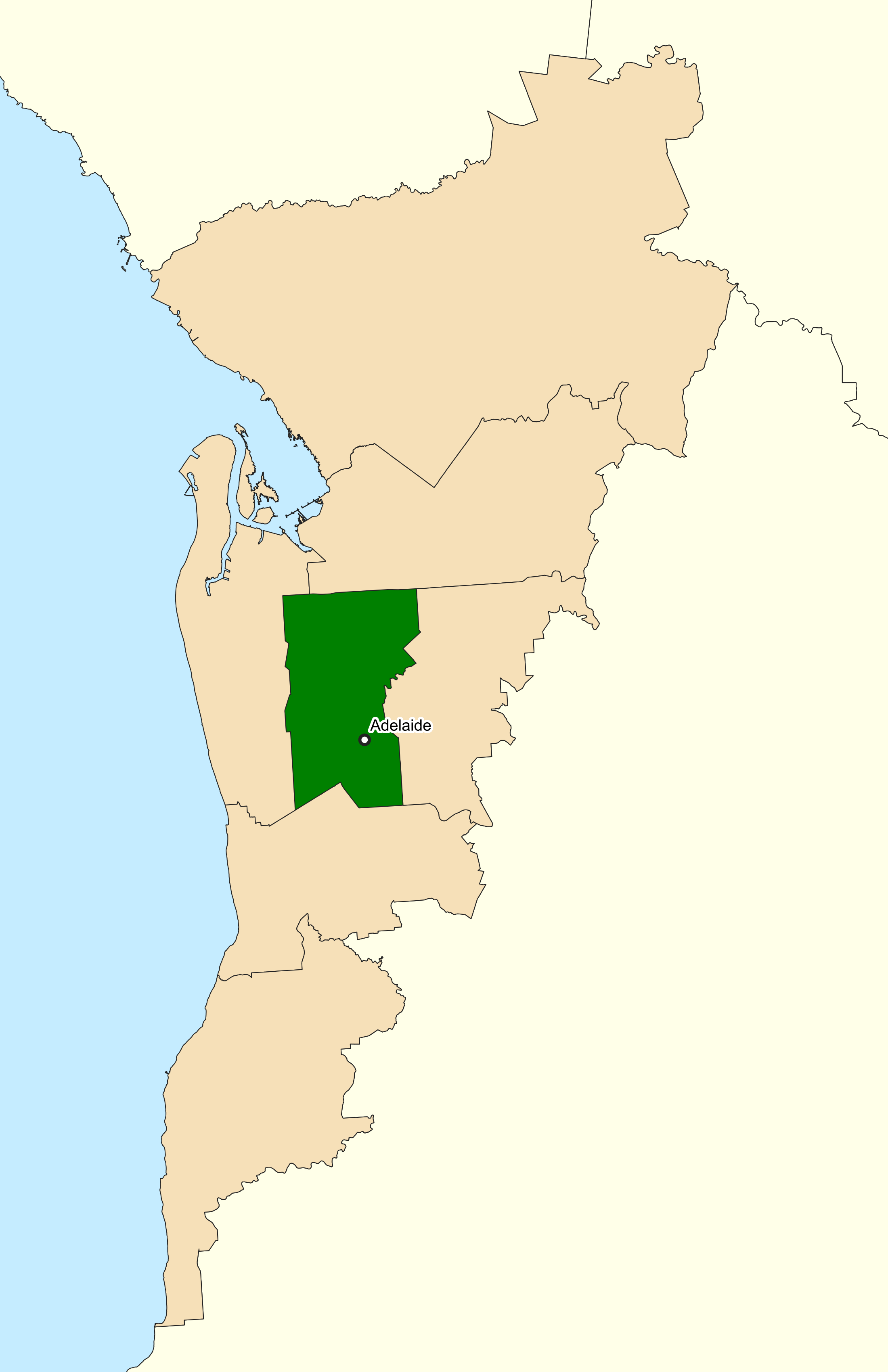 Location of the Australian federal electoral division of Adelaide (dark green) in Greater Adelaide, South Australia as of the 2019 Australian federal election. Incorporates or developed using Administrative Boundaries ©PSMA Australia Limited licensed by the Commonwealth of Australia under Creative Commons Attribution 4.0 International licence (CC BY 4.0).